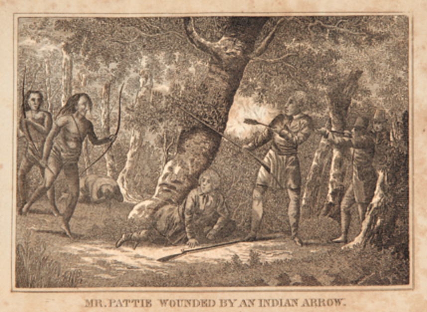 Illustration from The Personal Narrative of James O. Pattie